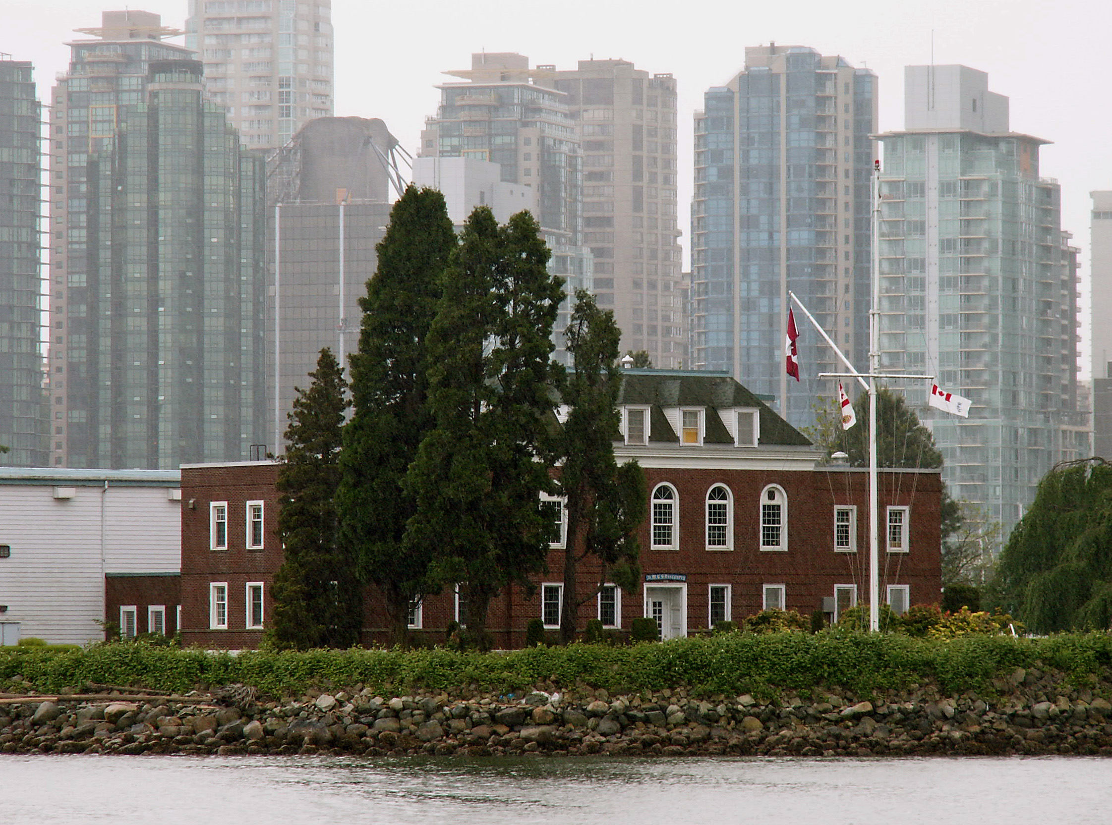 HMCS Disovery on Deadman's Island in Vancouver, British Columbia